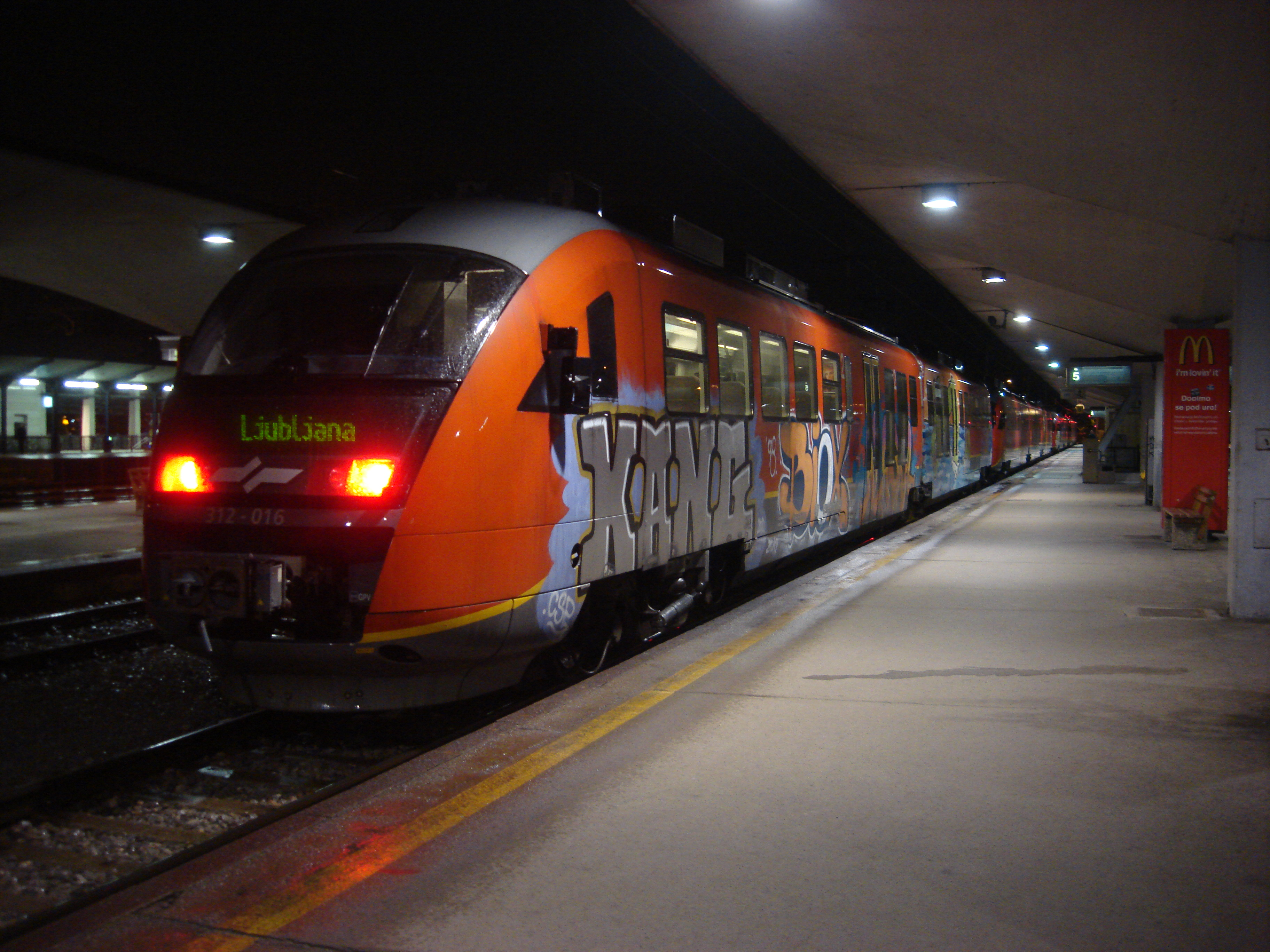 Ljubljana